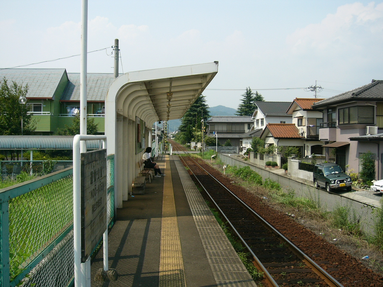 Undo-Koen Station (Platform)